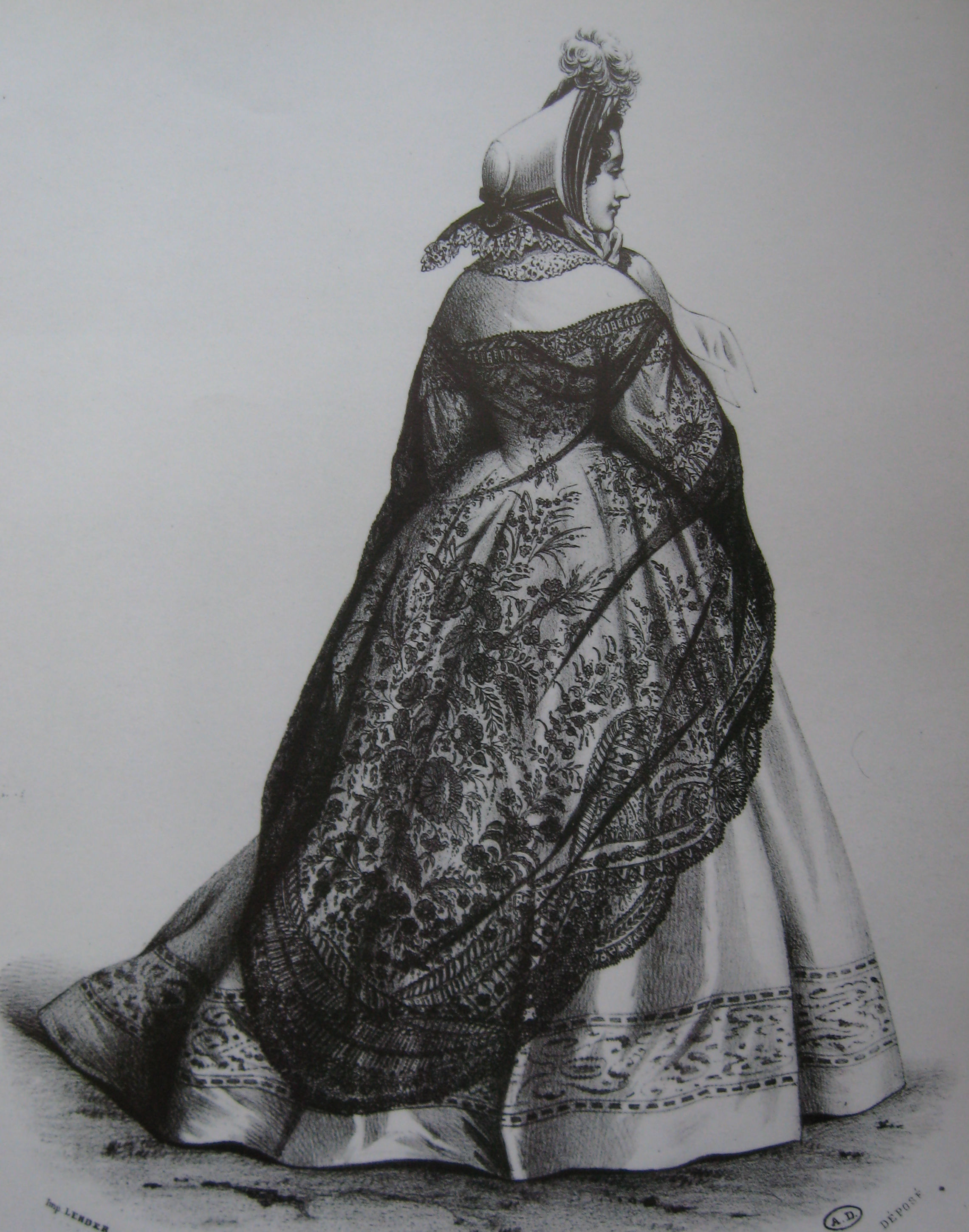 Fashion plate (Shawl of black Chantilly lace)